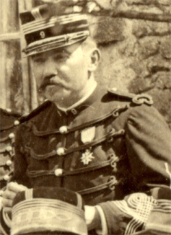 Portrait of Octave Gustave Adolphe Gillet